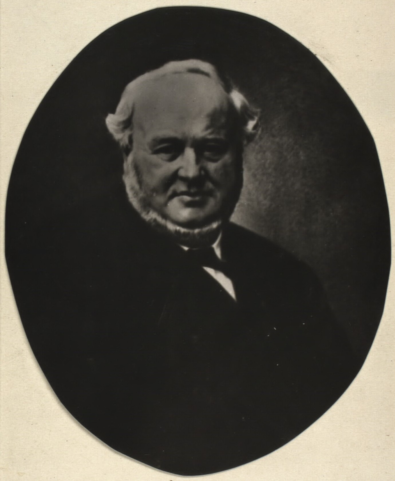 Portrait of Frederik "Frits" Carl Wilhelm Niels Adolf Krabbe Juel-Brockdorff (1812-1876), Danish Baron and landowner